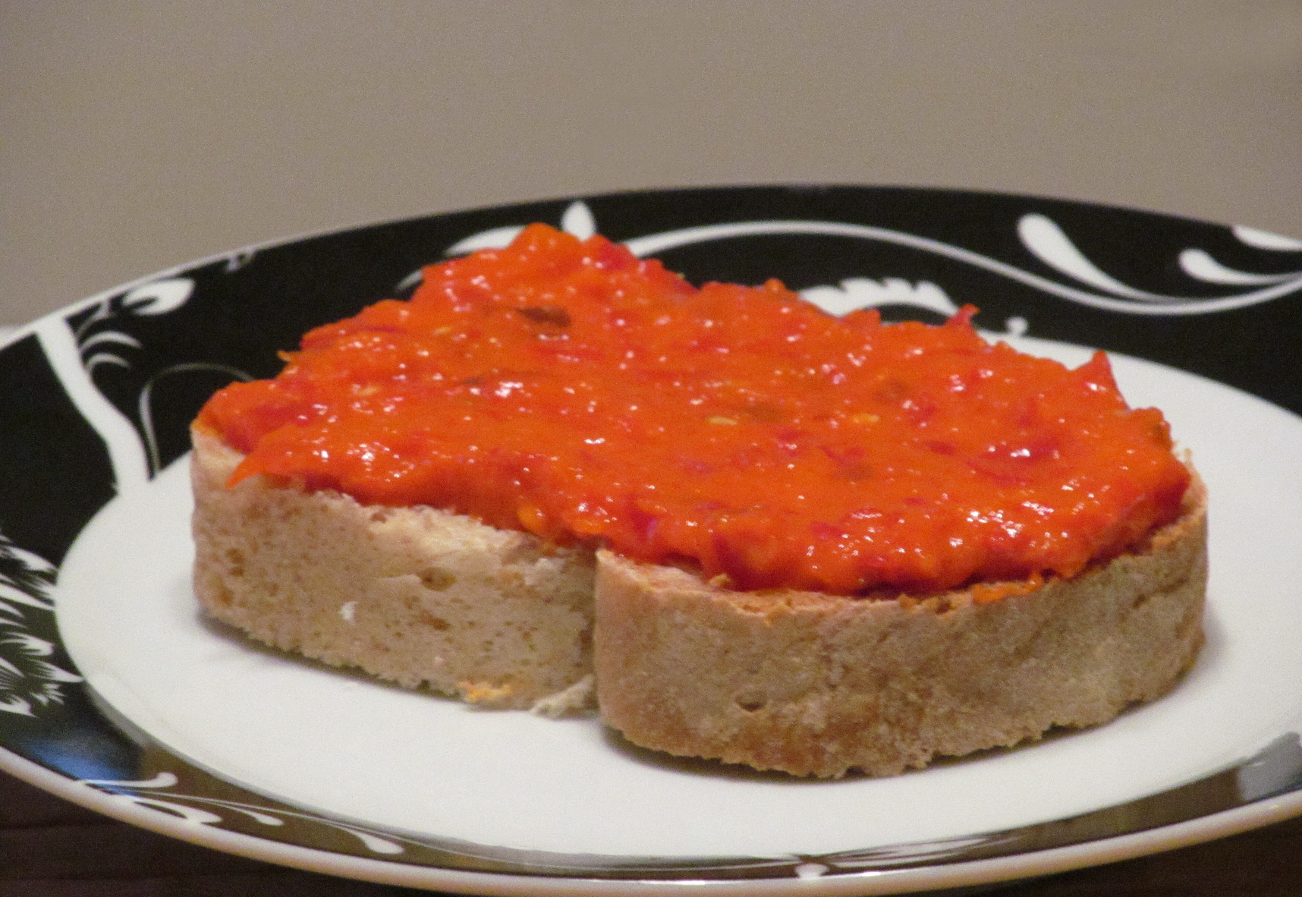 Ajvar sandwich